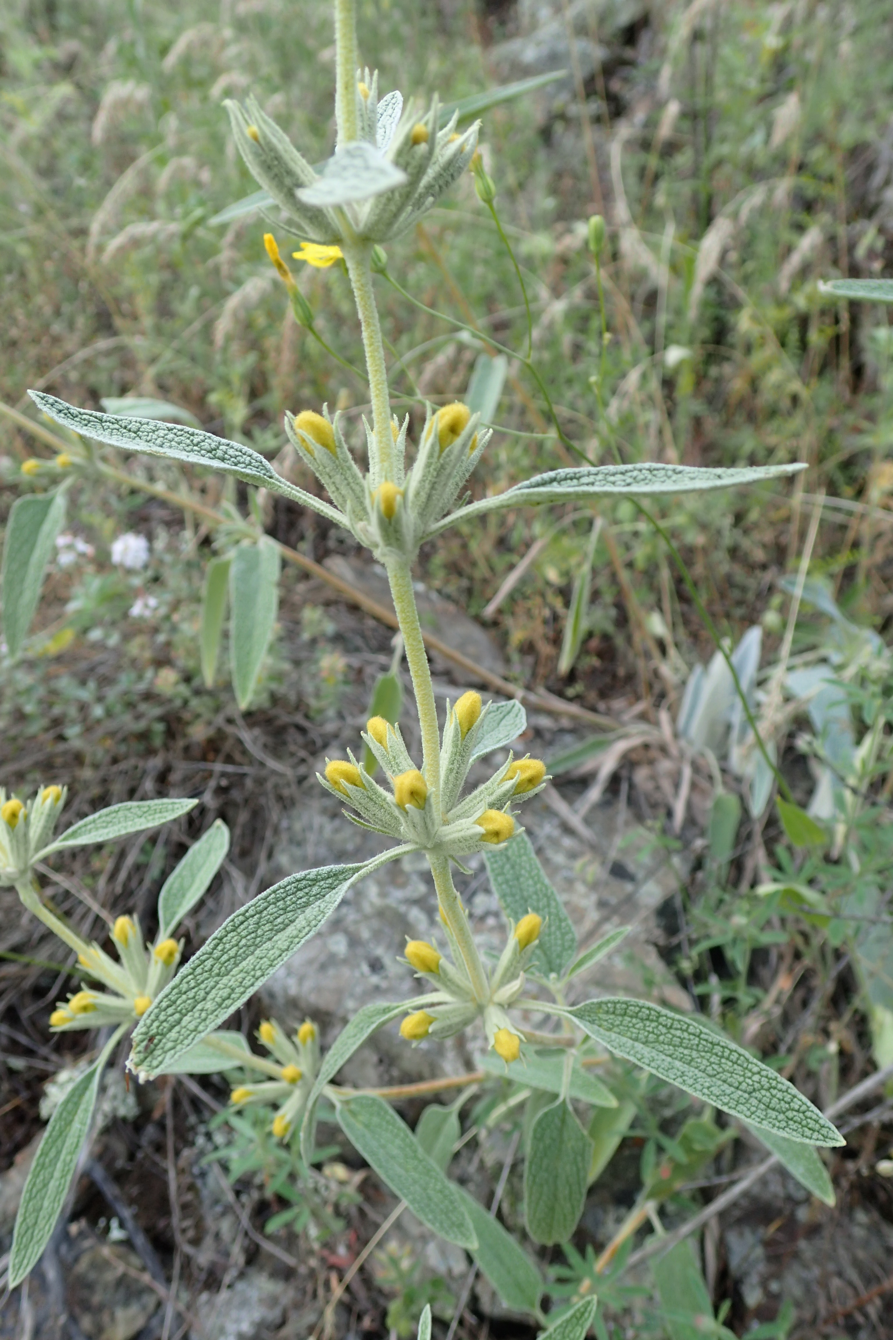 Phlomis armeniaca in Vayk (Armenia)